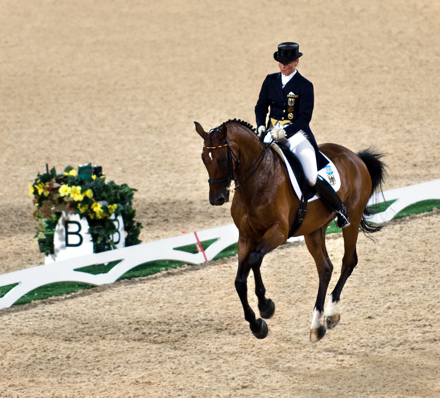 Olympic Dressage in Hong Kong, China.